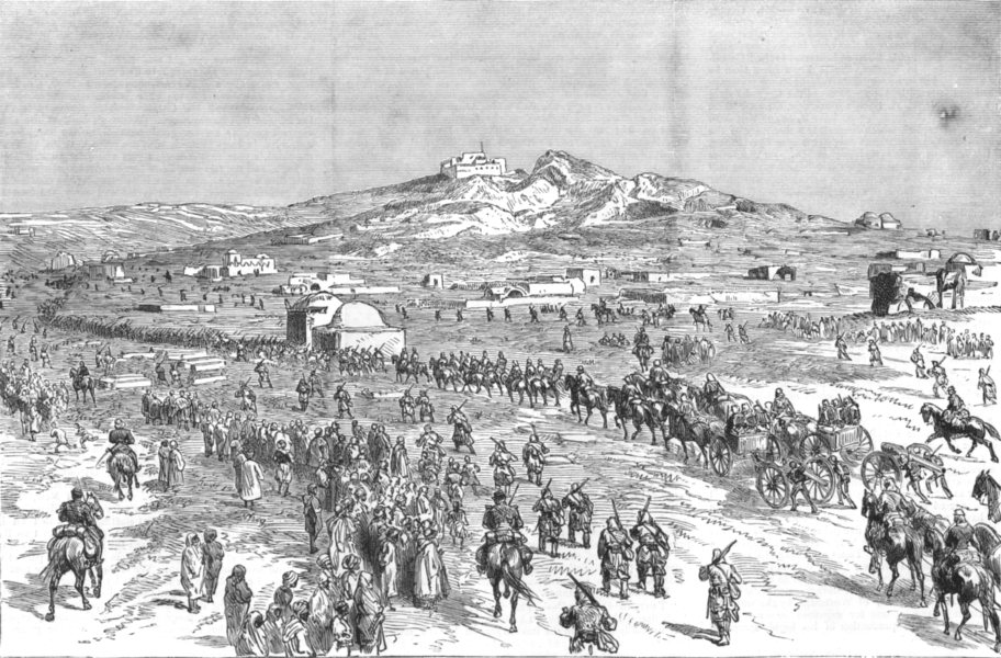 Antique engraved print illustrating French troops occupying Fort Sidi Bel Hassan, commanding Tunis, in 1881